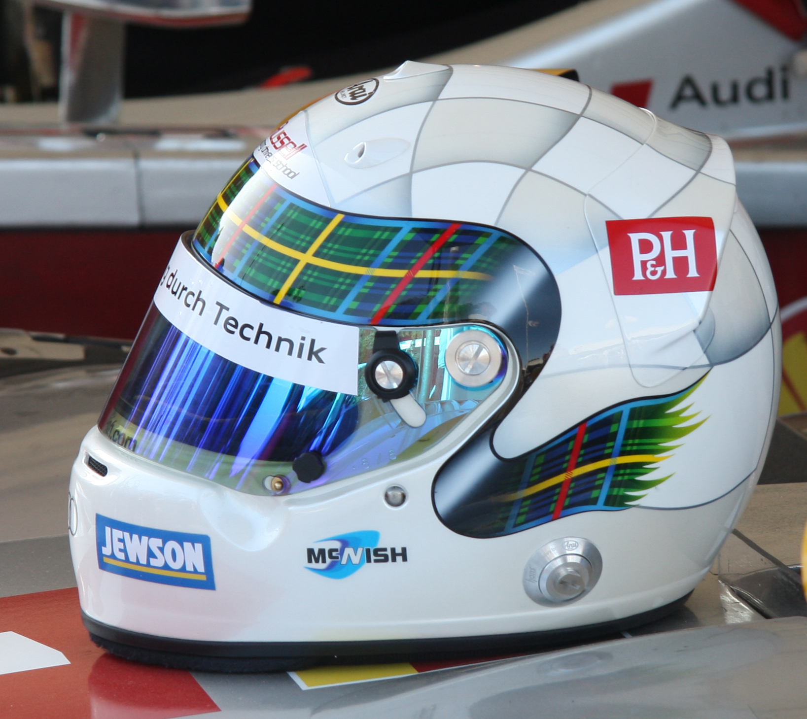 Allan McNish Arai helmet